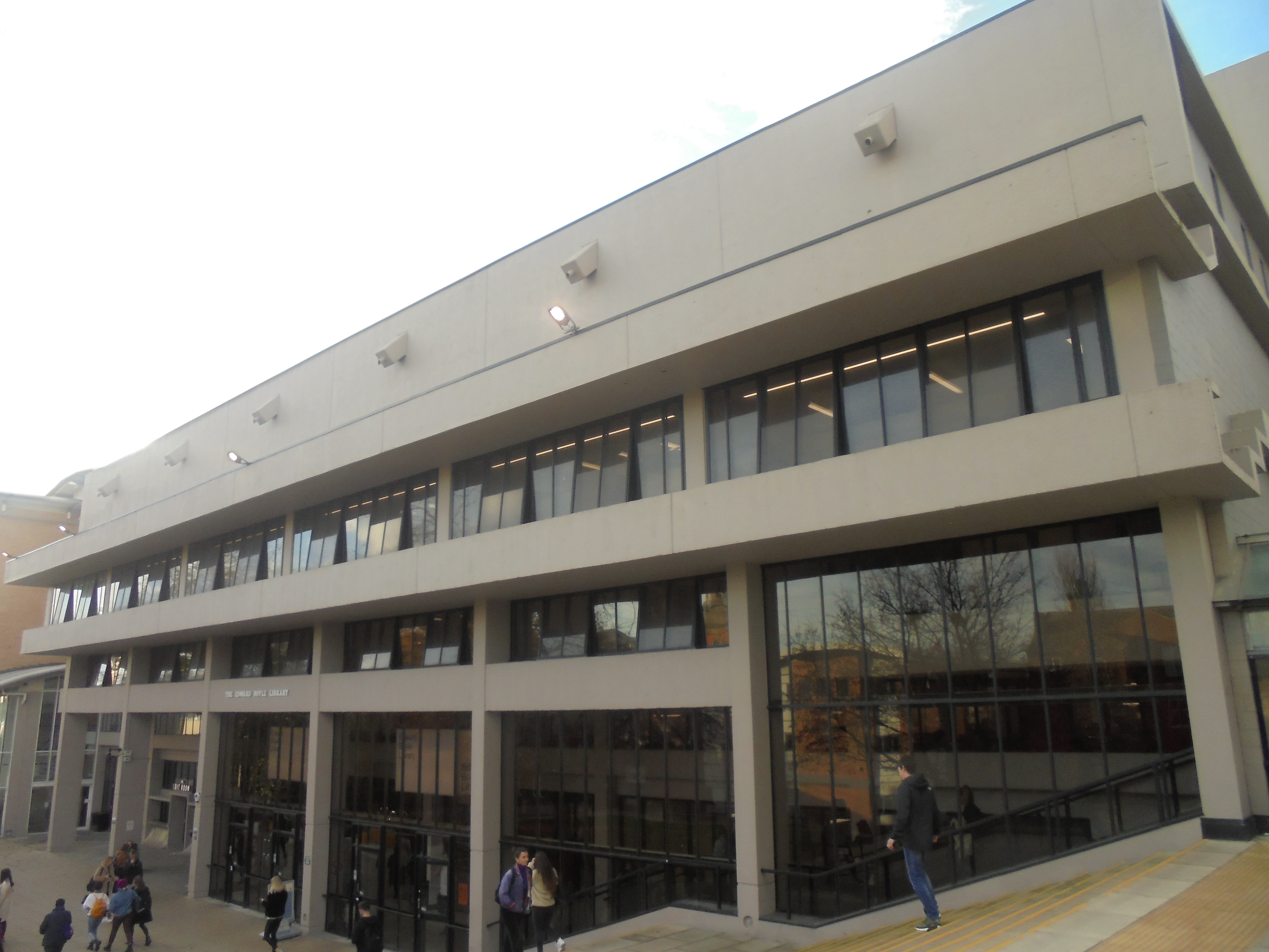 Edward Boyle Library, University of Leeds, Leeds, West Yorkshire. Taken on the afternoon of Wednesday the 14th of November 2018.